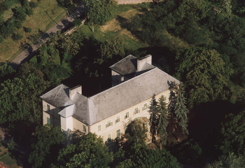 Palace - Hejce - Hungary - Europe